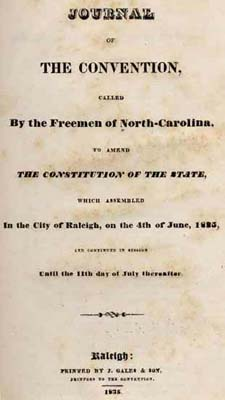 Cover of the journal of the convention of 1835 in Raleigh, North Carolina, where the 1776 North Carolina Constitution was amended.